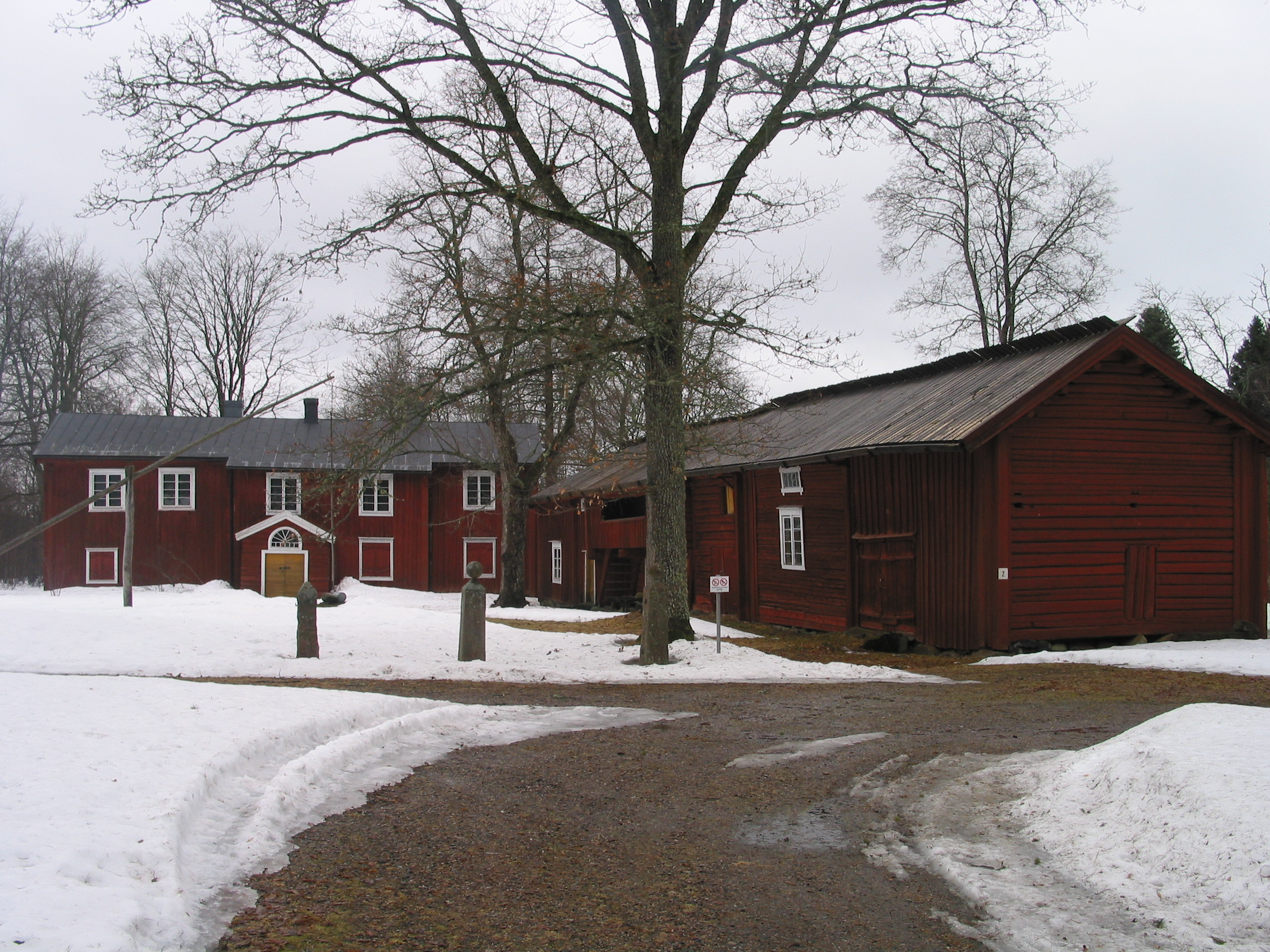 Lohilampi Museum, Sammatti, Lohja, Uusimaa, Finland